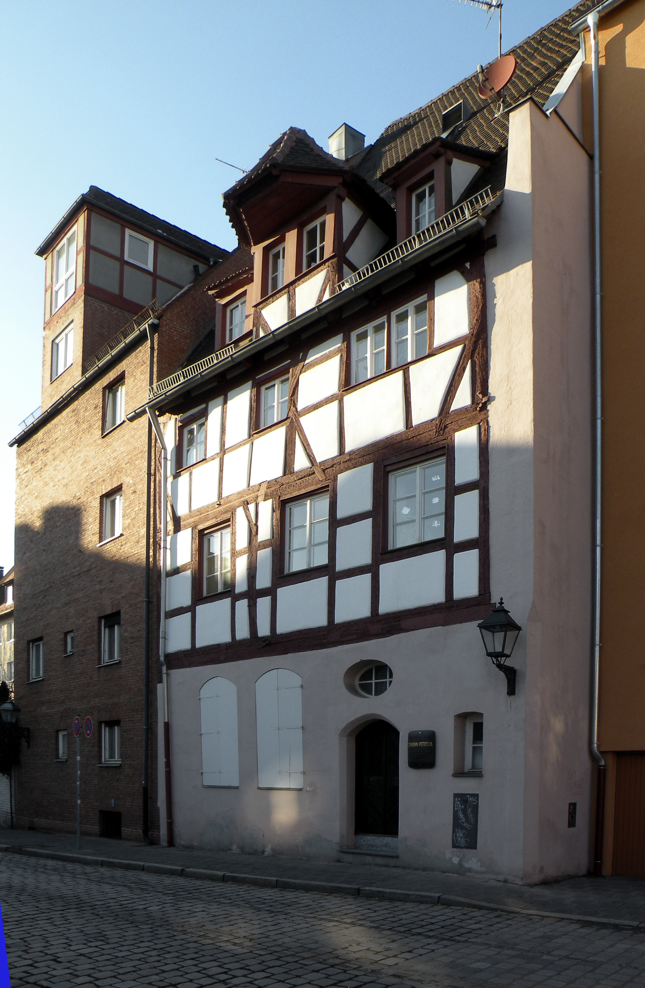 Nürnberg-St. Sebald, Haus Am Ölberg 9/Obere Schmiedgasse 10. Ehem. Wohnsitz des Buchdruckers Johannes Petreius.